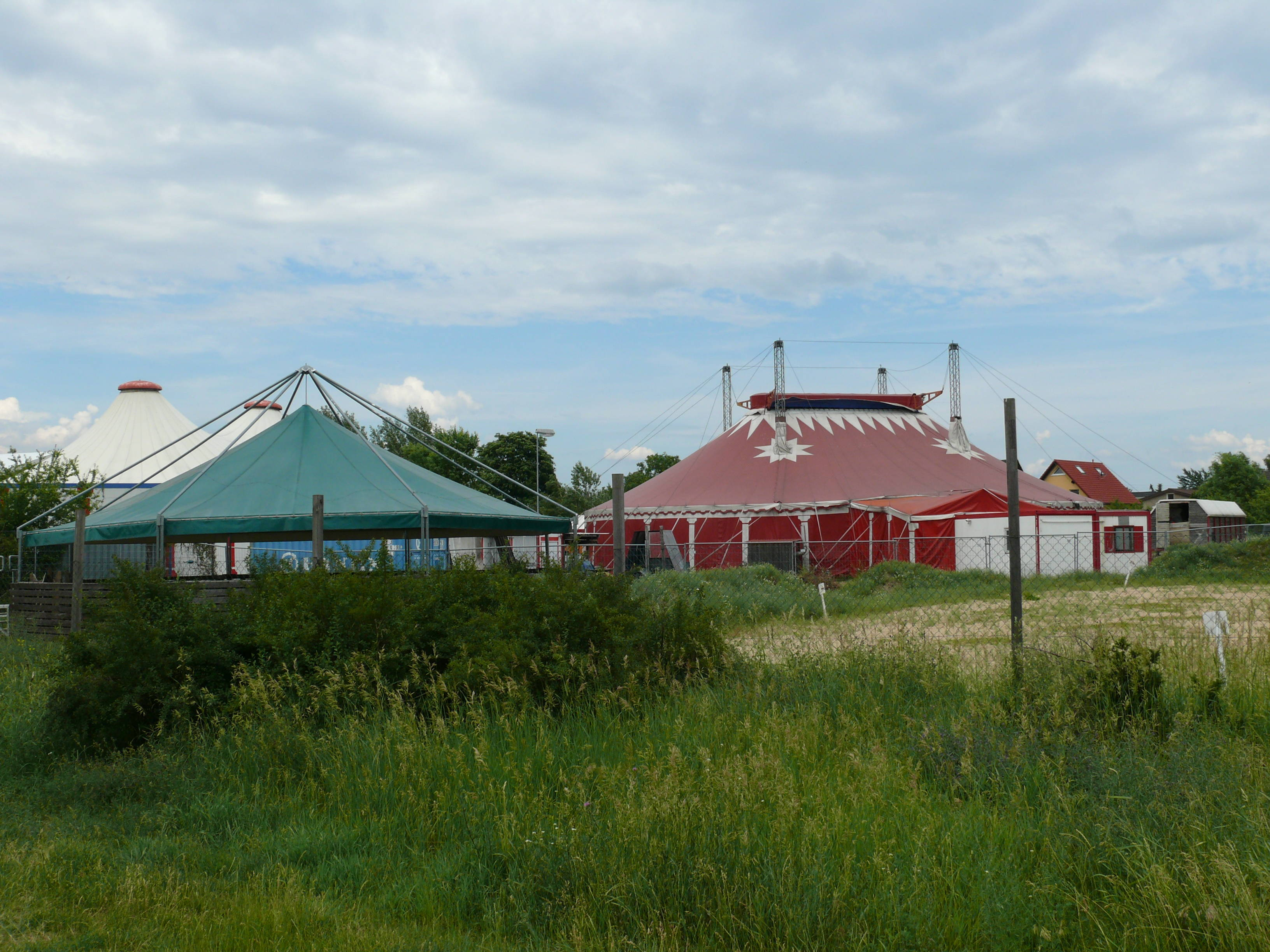 Berlin-Altglienicke Blindschleichengang CABUWAZI